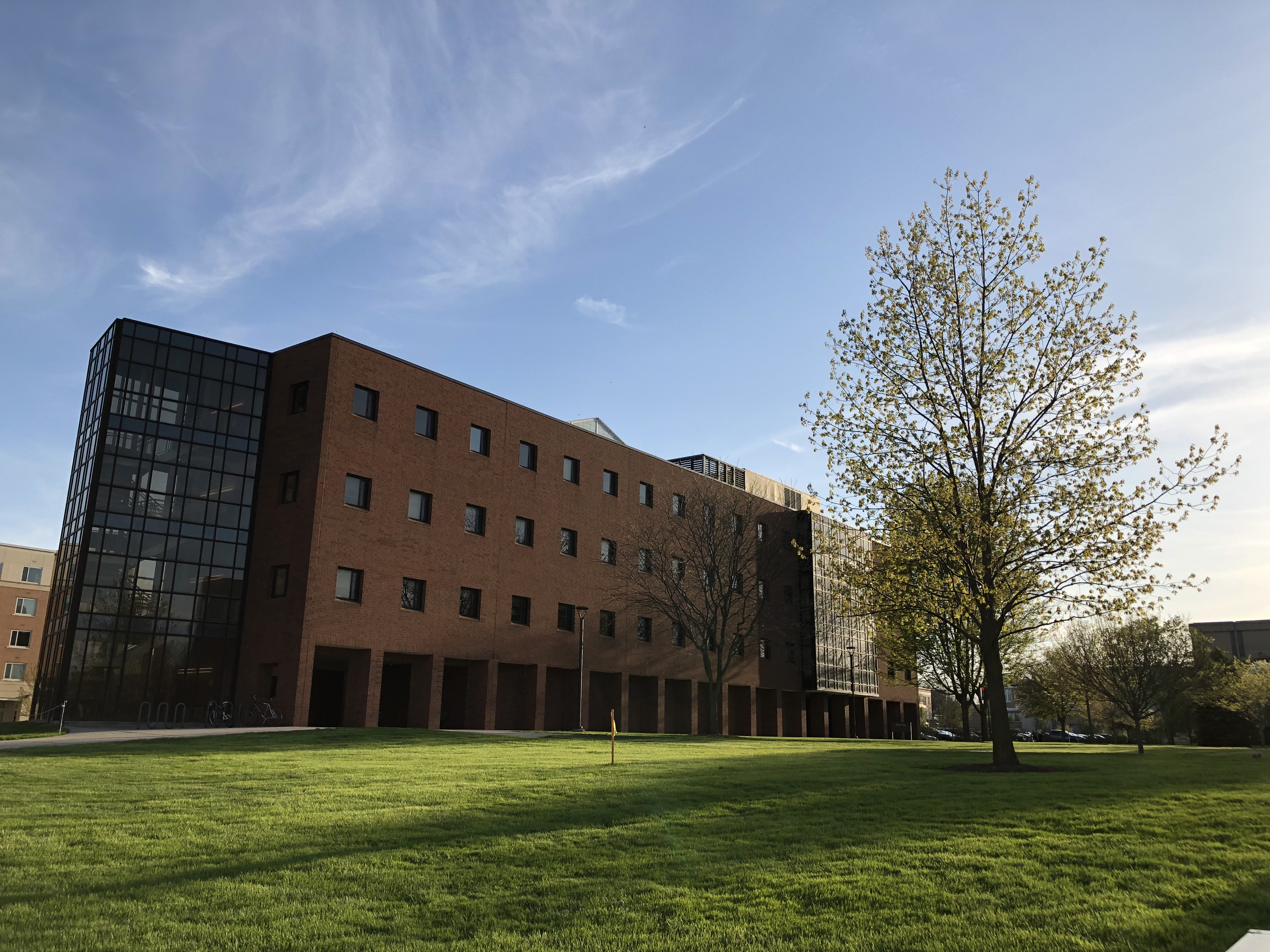 East Hall at BGSU. Home of the English Department.